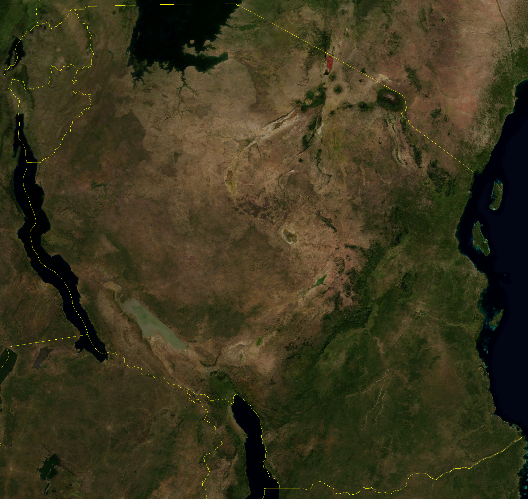 Satellite image of Tanzania in June 2004.